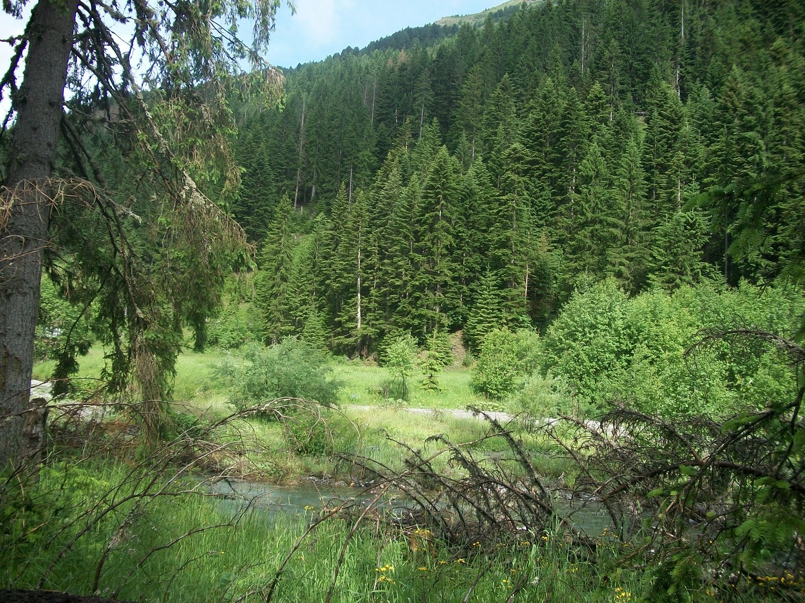 Photos from Heroid Shehu for Wikimedia Commons. Original Filename "Heroid_Shehu/Gjeravica 2010/f0149920.jpg"